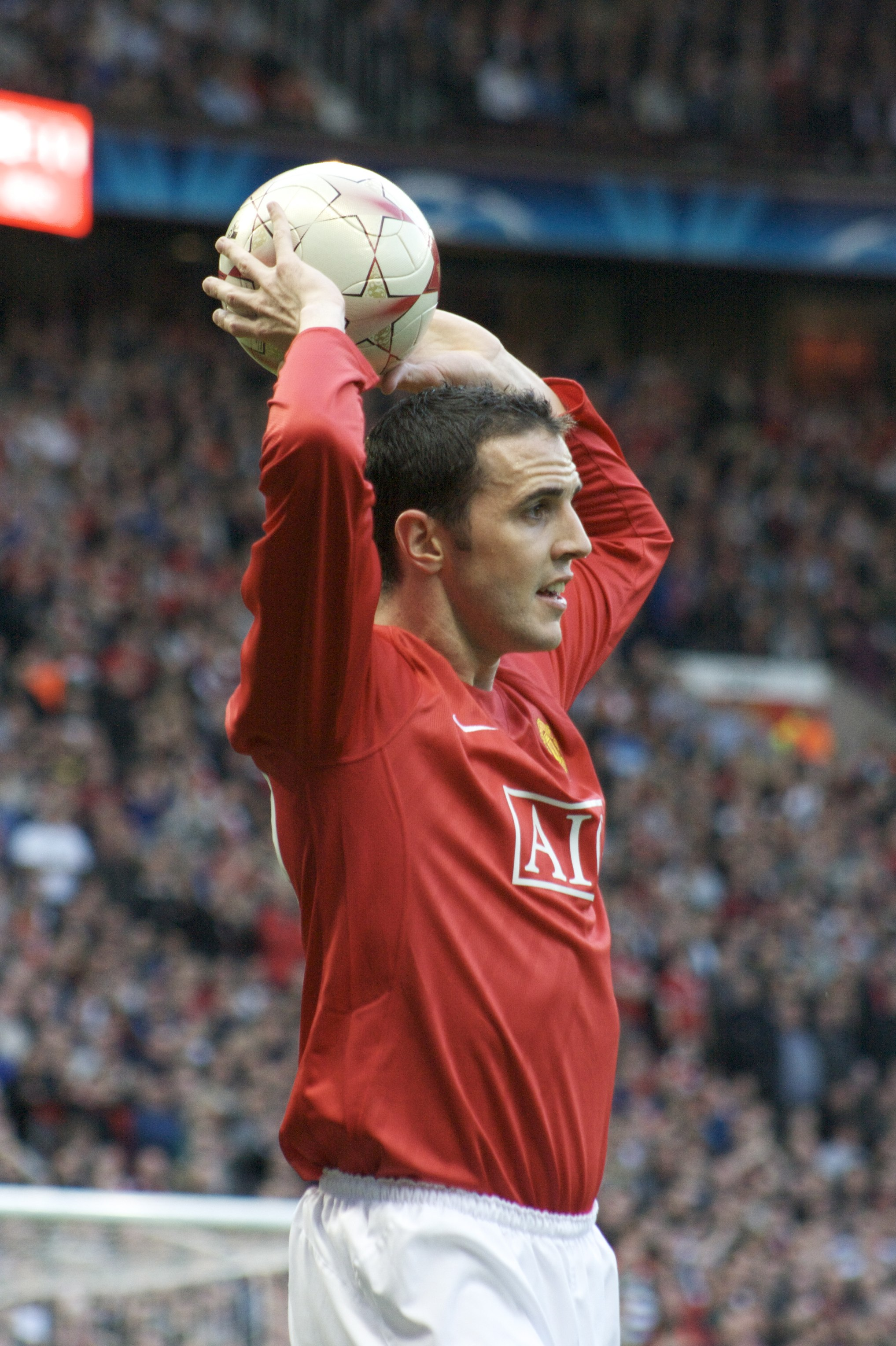 John O'Shea